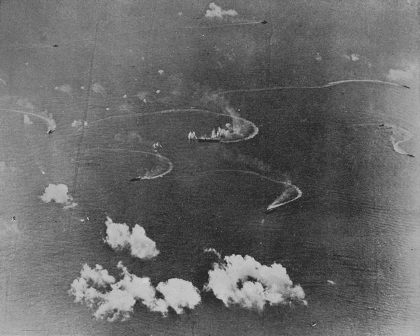 IJN 1st Mobile Fleet under attack on 20 June 1944